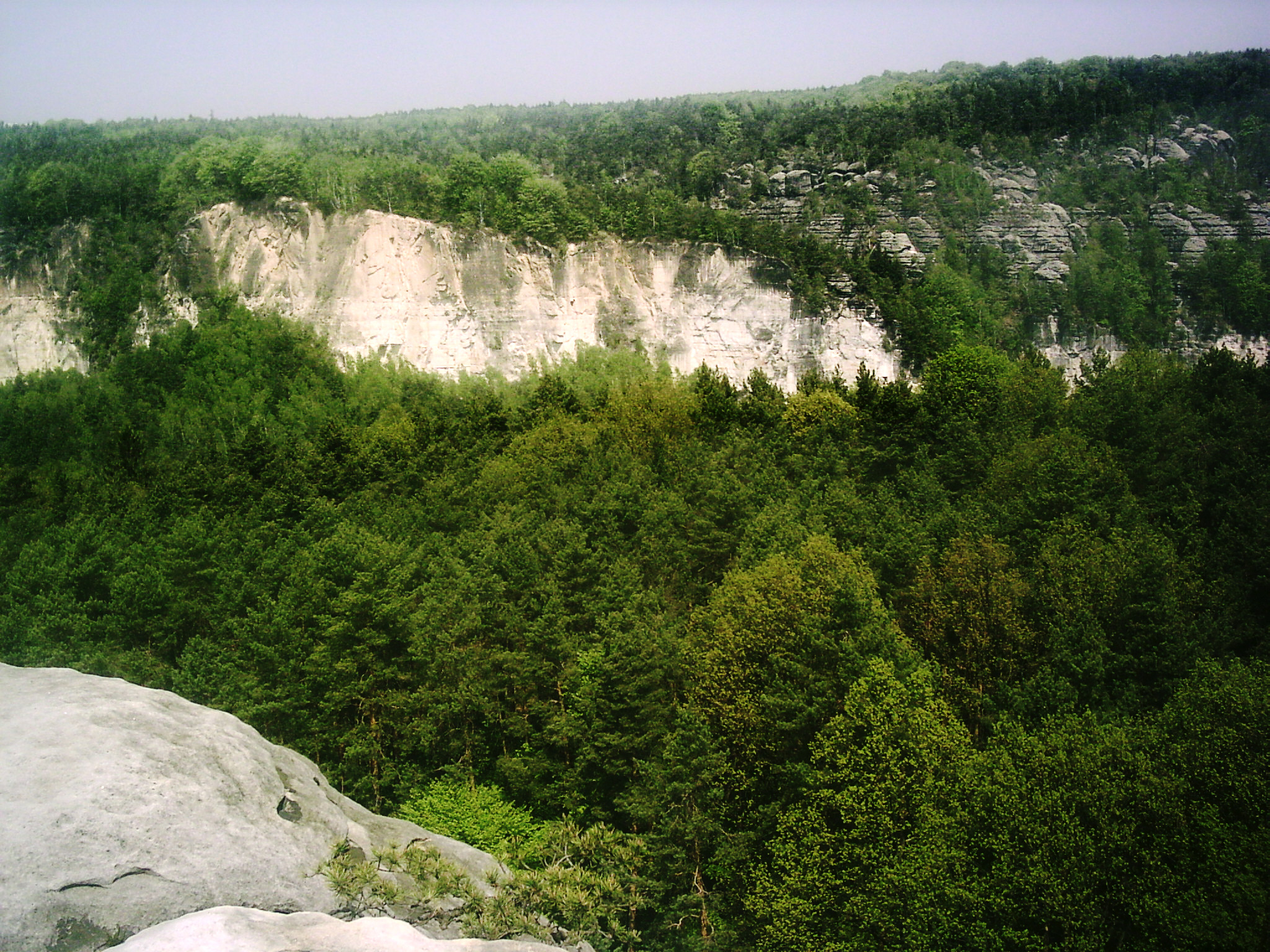 The "White Quarries" near the town of Stadt Wehlen in Saxon Switzerland (Elbe Sandstone Mountains), viewed from Weißig. Version:Überarbeitet von micl